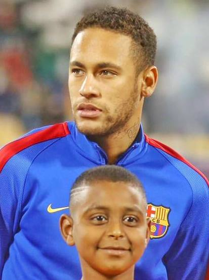 Al-Ahli FC v FC Barcelona December 16, 2016